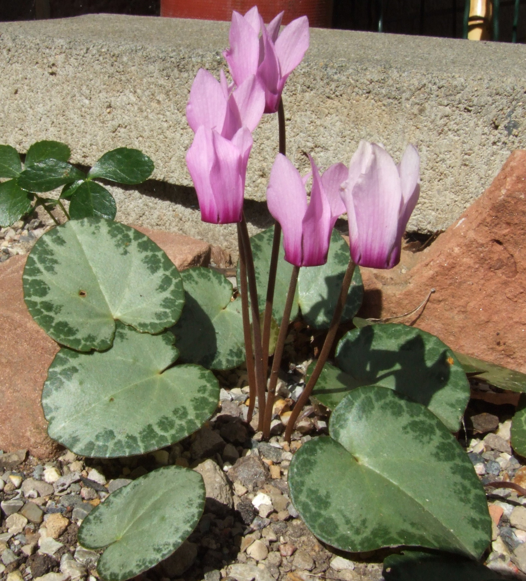 Cyclamen purpurascens with pink flower and silver green-edged leaf